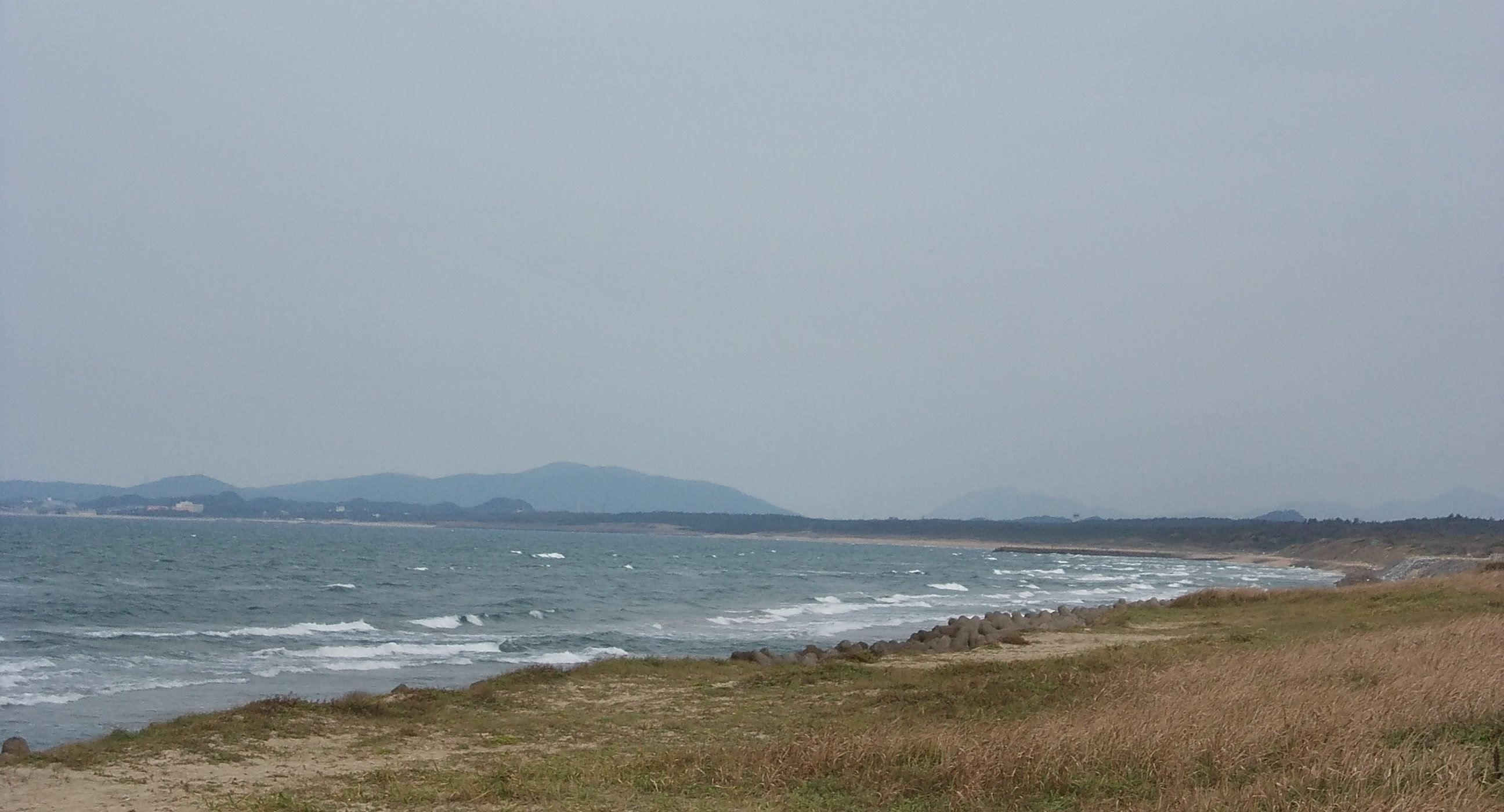 Sanri-matsubara Beach, Okagaki, Fukuoka, Japan